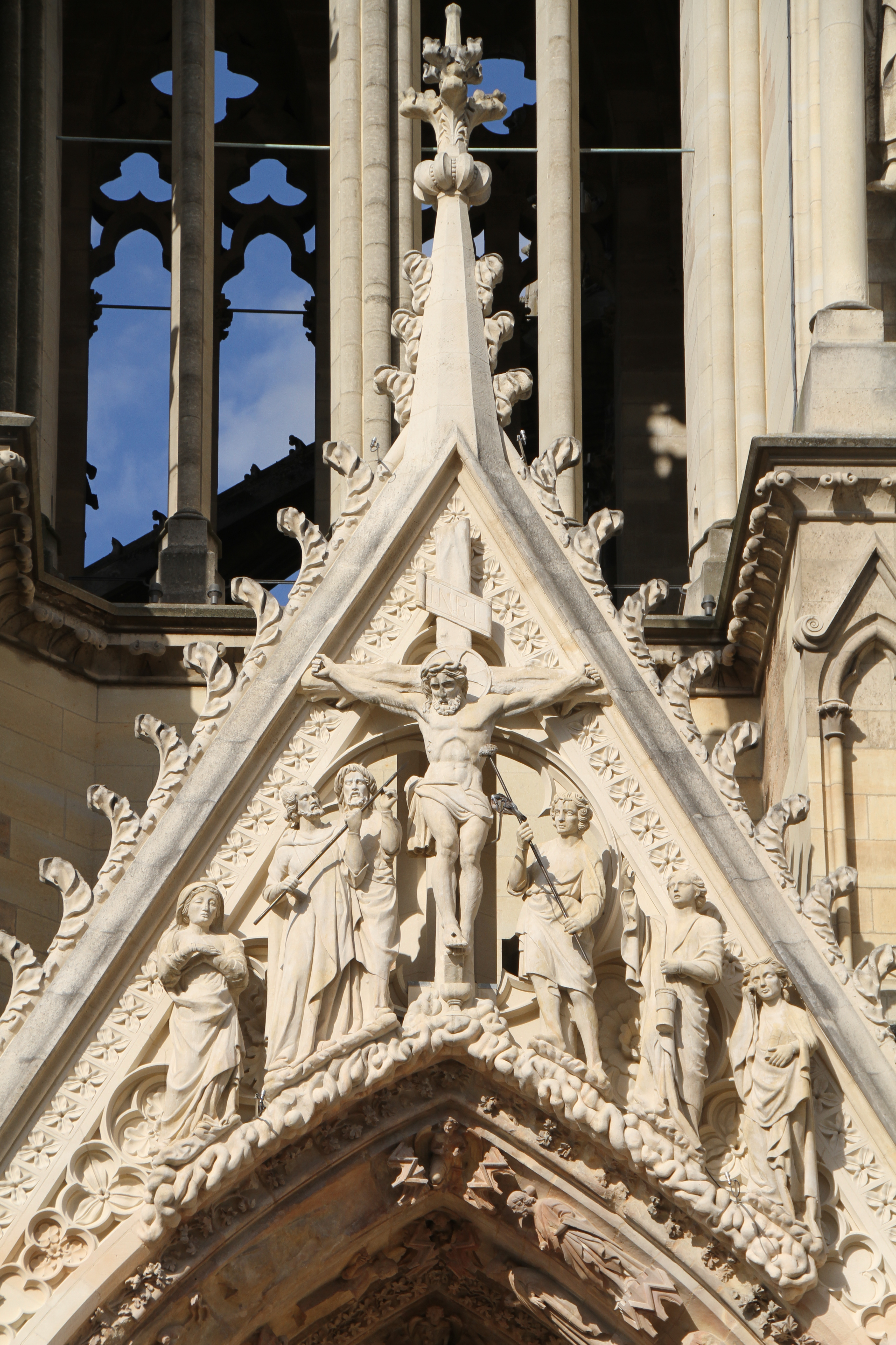 Christ sculptures of the Cathedral of Notre-Dame of Reims, France